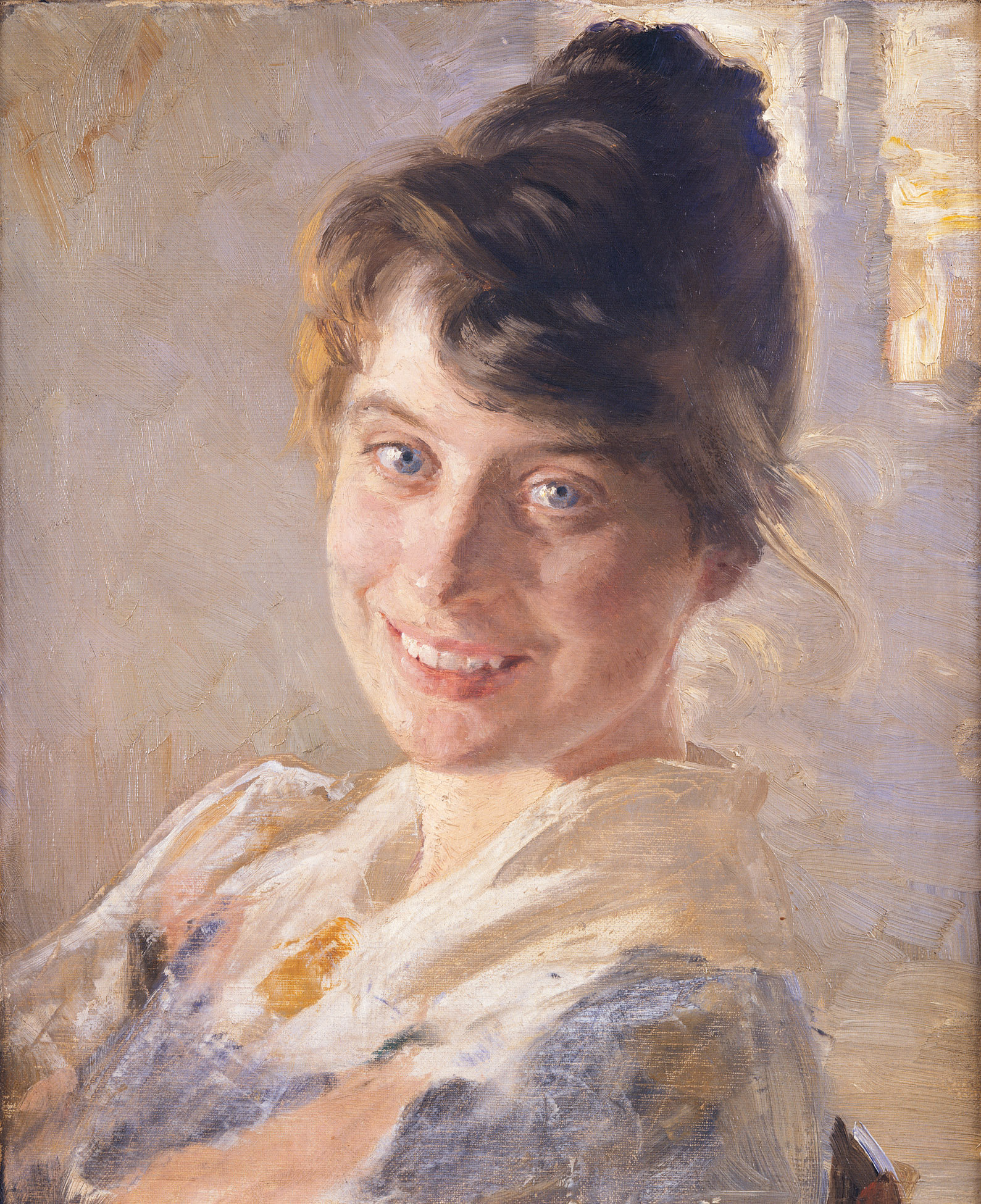 Painting by P.S. Krøyer of his wife Marie (born Marie Triepke). The painting was probably done in 1889 during their stay at Stenbjerg Kro in Thy - as part of their long and far-reaching honeymoon. Christensen dated it to 1890, but the Loeb Collection argue convincingly for 1889 on their homepage